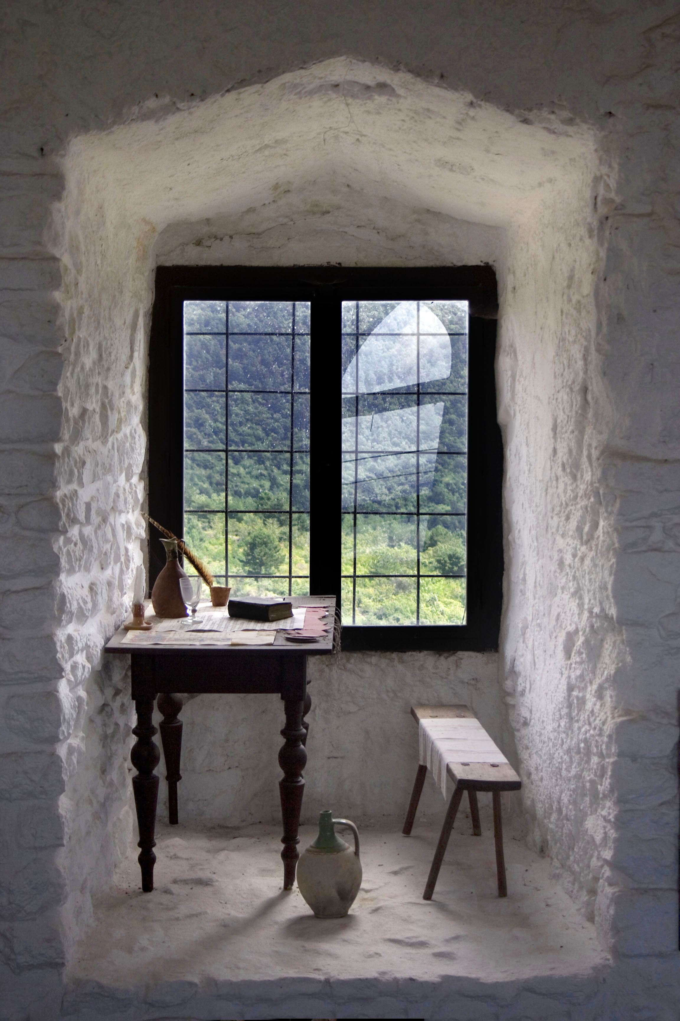 Hungary / Boldogkő Castle - mood fifteenth century